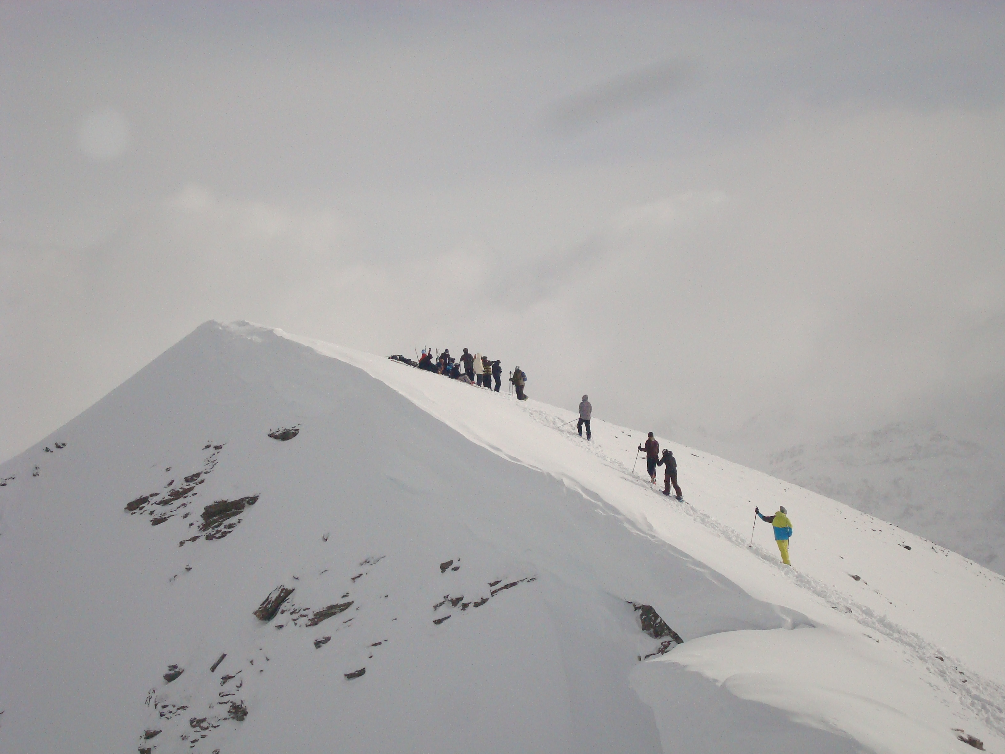 2nd Summit of Tällihorn, Safiental, Switzerland